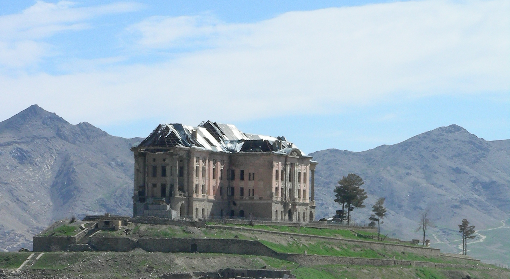 Queen's Palace in Kabul (Taj Beg Palace)